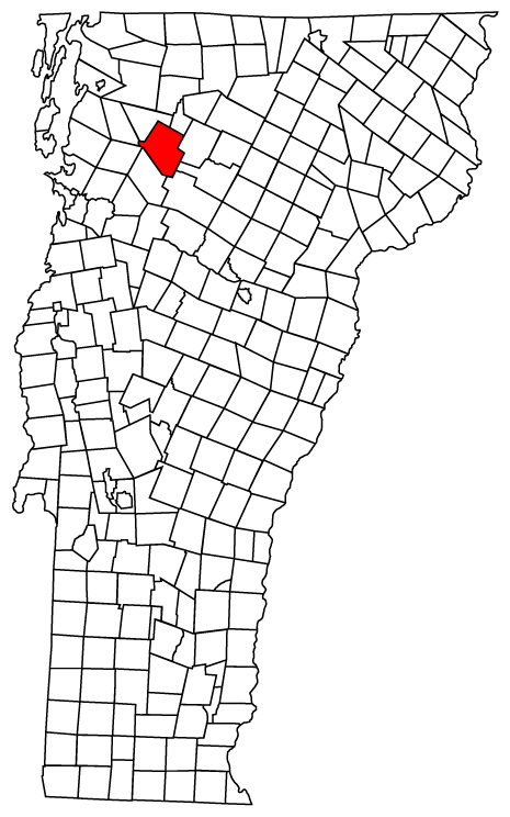 Description: Map of Vermont towns with Cambridge highlighted Source: Map created by Jared C. Benedict on 26 March 2004. Copyright: © Jared C. Benedict.